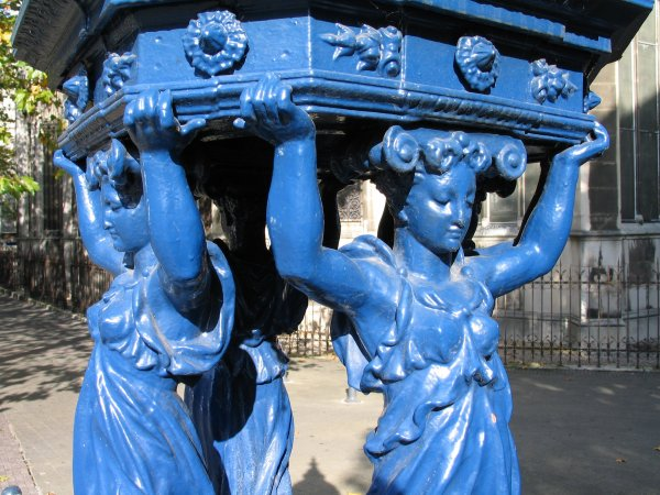 a blue Wallace fountain in Nancy, near Basilique Saint-Epvre.